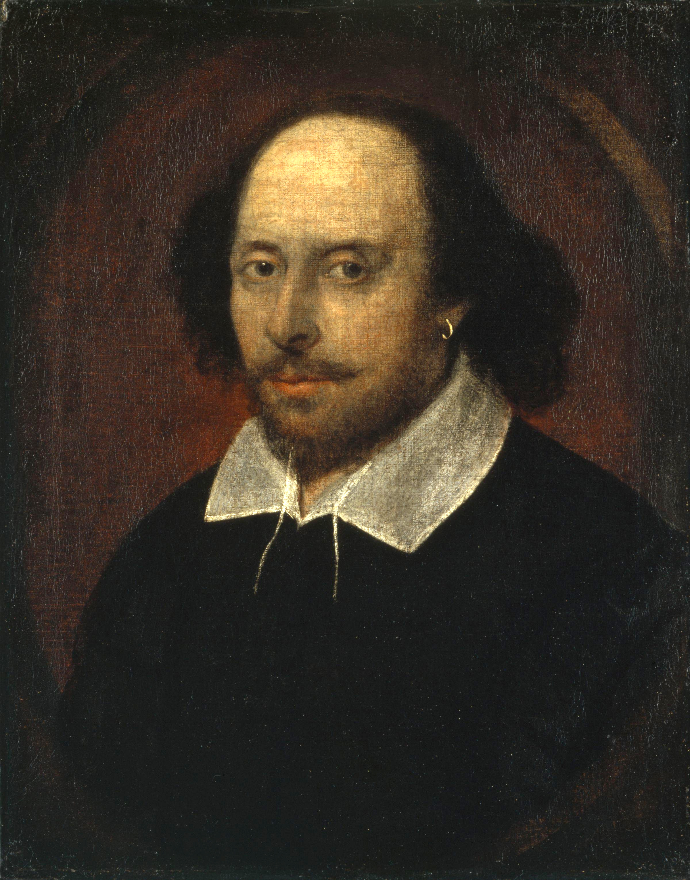 This was long thought to be the only portrait of William Shakespeare that had any claim to have been painted from life, until another possible life portrait, the Cobbe portrait, was revealed in 2009. The portrait is known as the 'Chandos portrait' after a previous owner, James Brydges, 1st Duke of Chandos. It was the first portrait to be acquired by the National Portrait Gallery in 1856. The artist may be by a painter called John Taylor who was an important member of the Painter-Stainers' Company.[1]